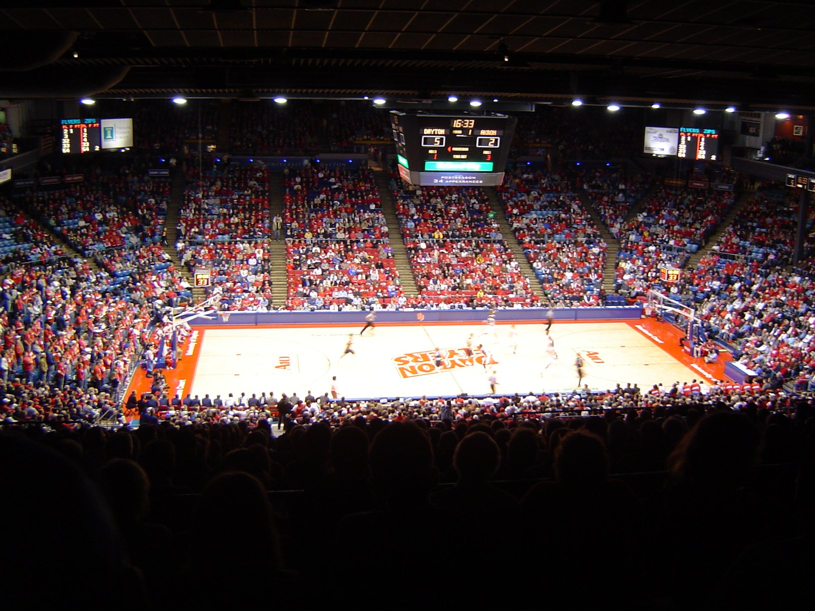 Dayton Flyers vs. Akron Zips at University of Dayton Arena